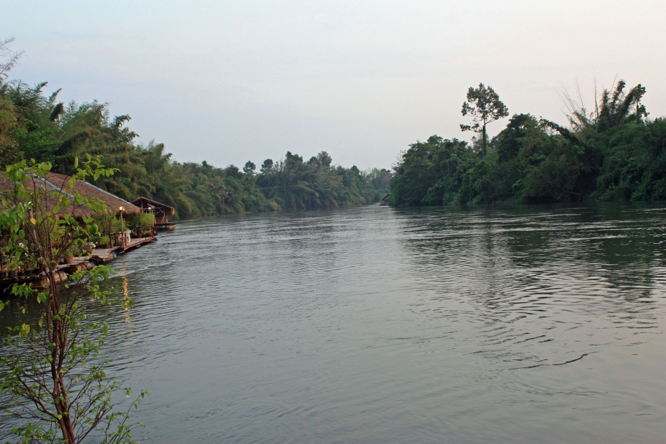 Khwae Noi River, Thailand.